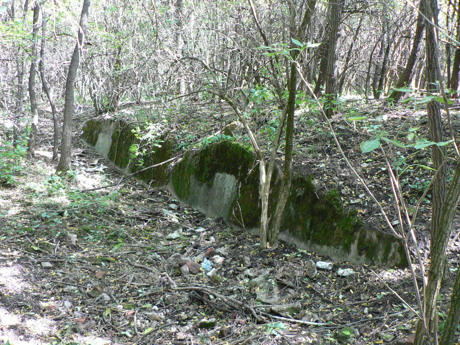 Egykori építmény alapfala a pilisszentiváni Erzsébet-akna helyénél (2009)